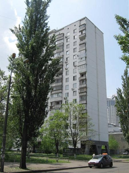 House where Ivan Mykolaychuk lived in 5 Serafymovycha Street, Kyiv, Ukraine